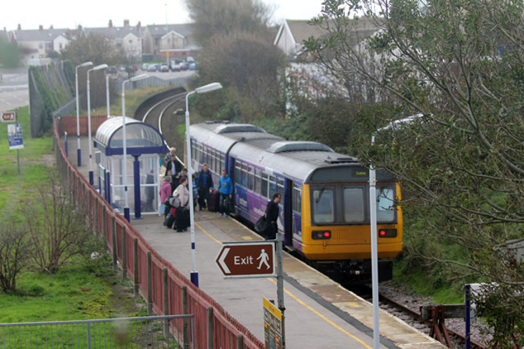 Blackpool South Station The photograph was taken from the bridge on Waterloo Road.